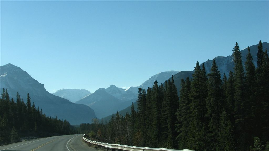 Icefields Parkway